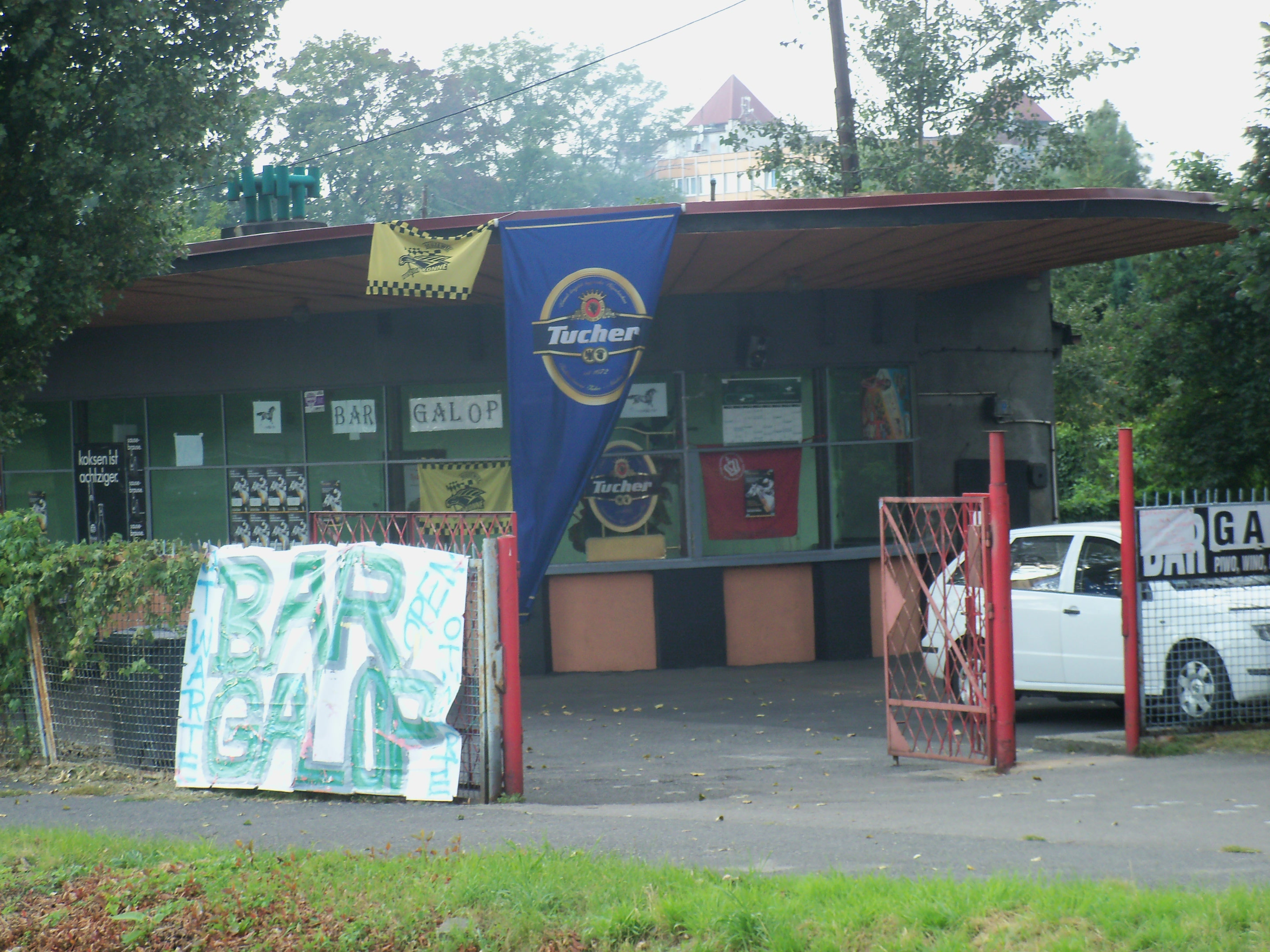 Building on Kościuszki Street in Katowice